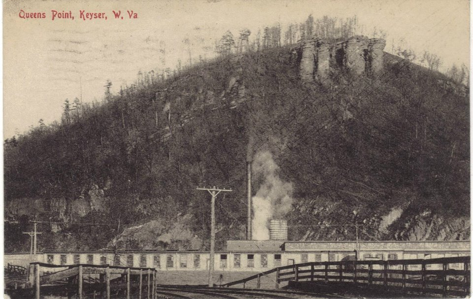 Worsted Woolen Mill Keyser WV, 1908, with Queens Point